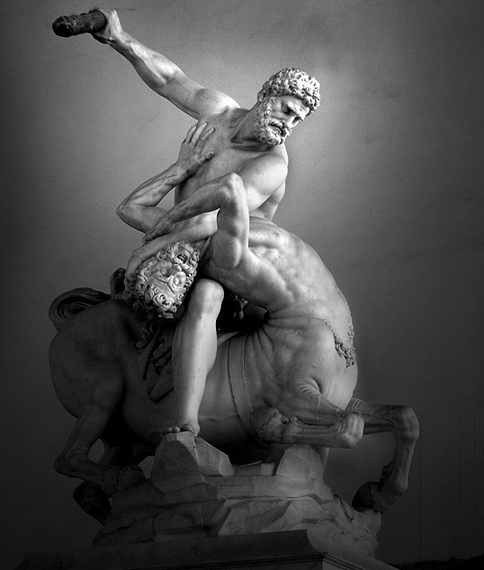 Hercules beating Nessus, Loggia dei Lanzi, FlorenceItaly.